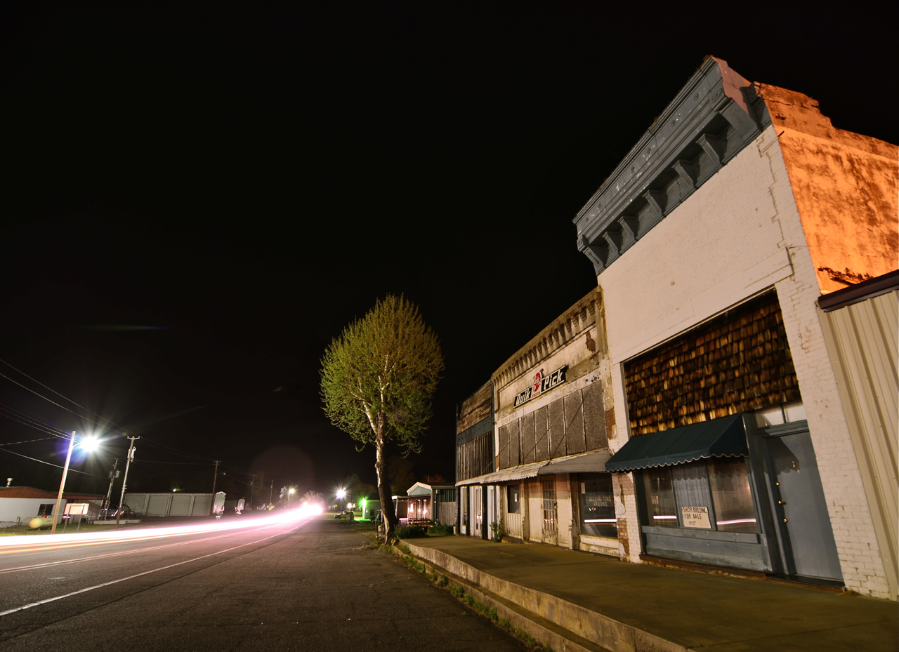 Downtown Magazine